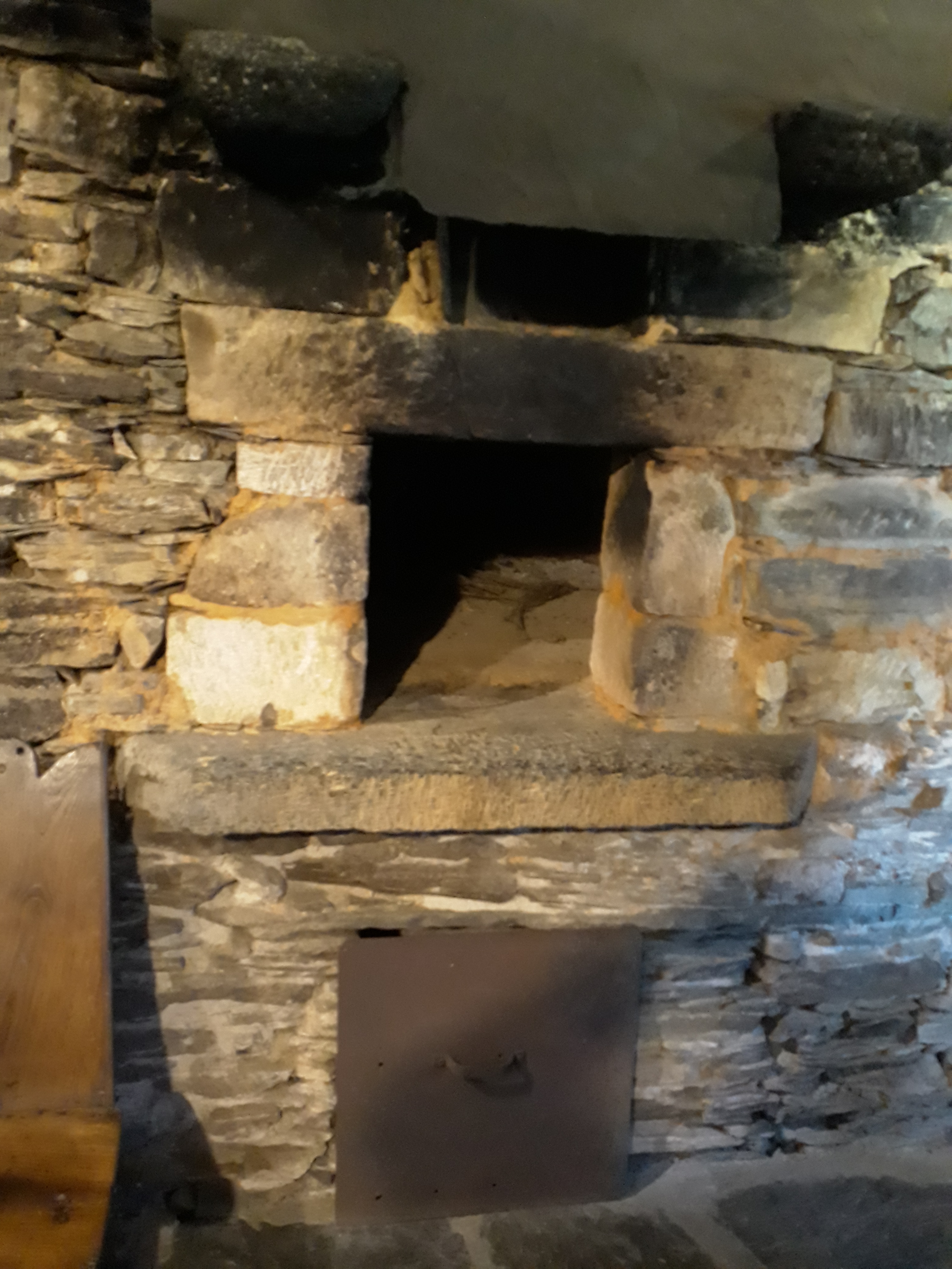 Ethnographic Museum of Grandas de Salime, Asturias, Spain.